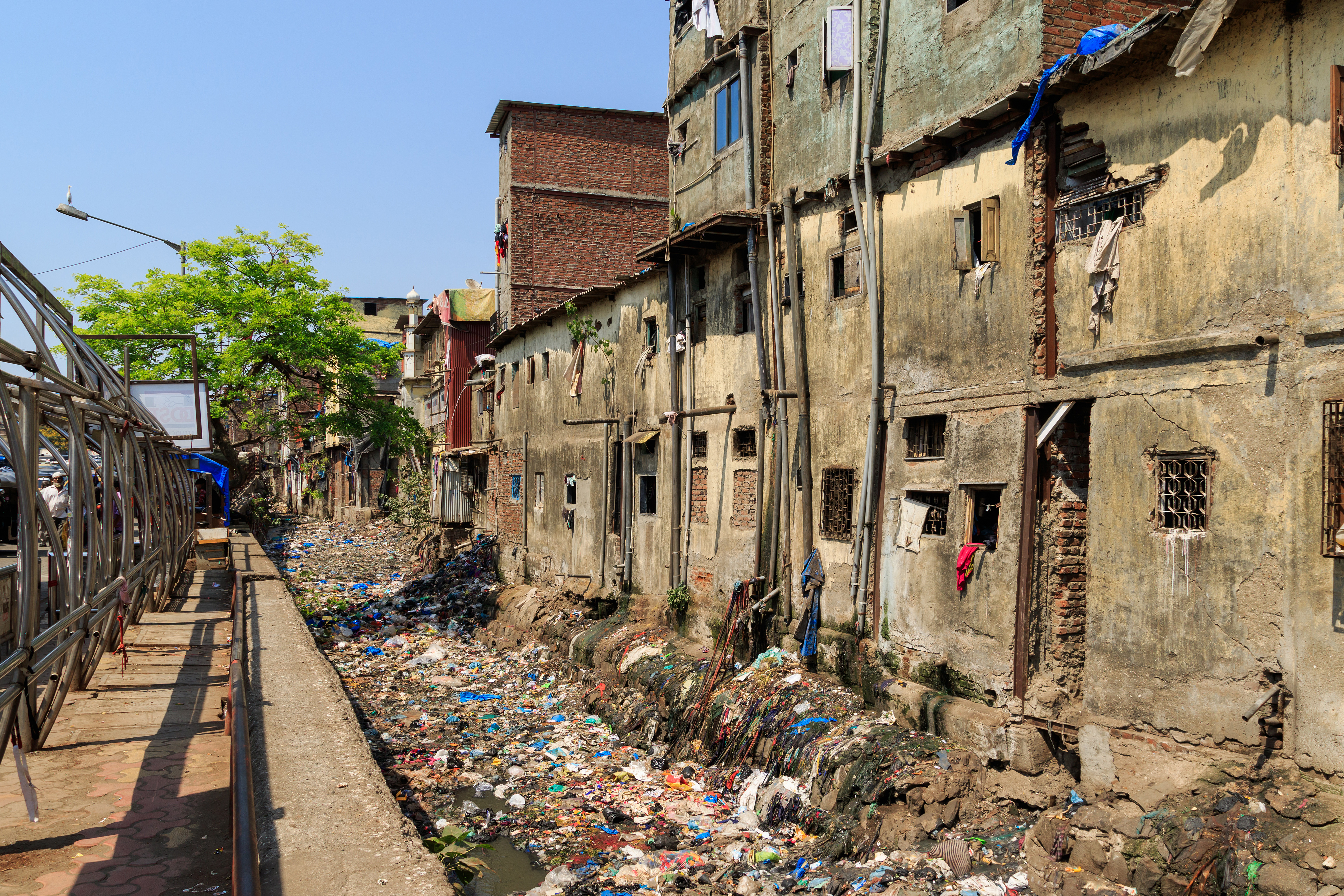 Near surroundings of Bandra railway station in Mumbai, India